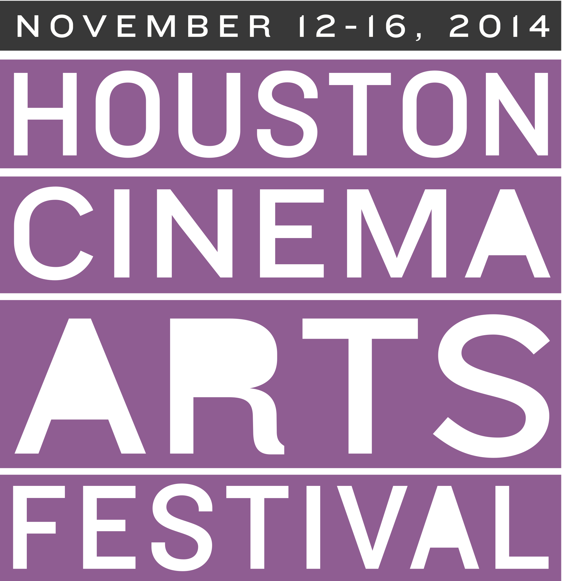 Houston Cinema Arts Festival 2014 logo and dates